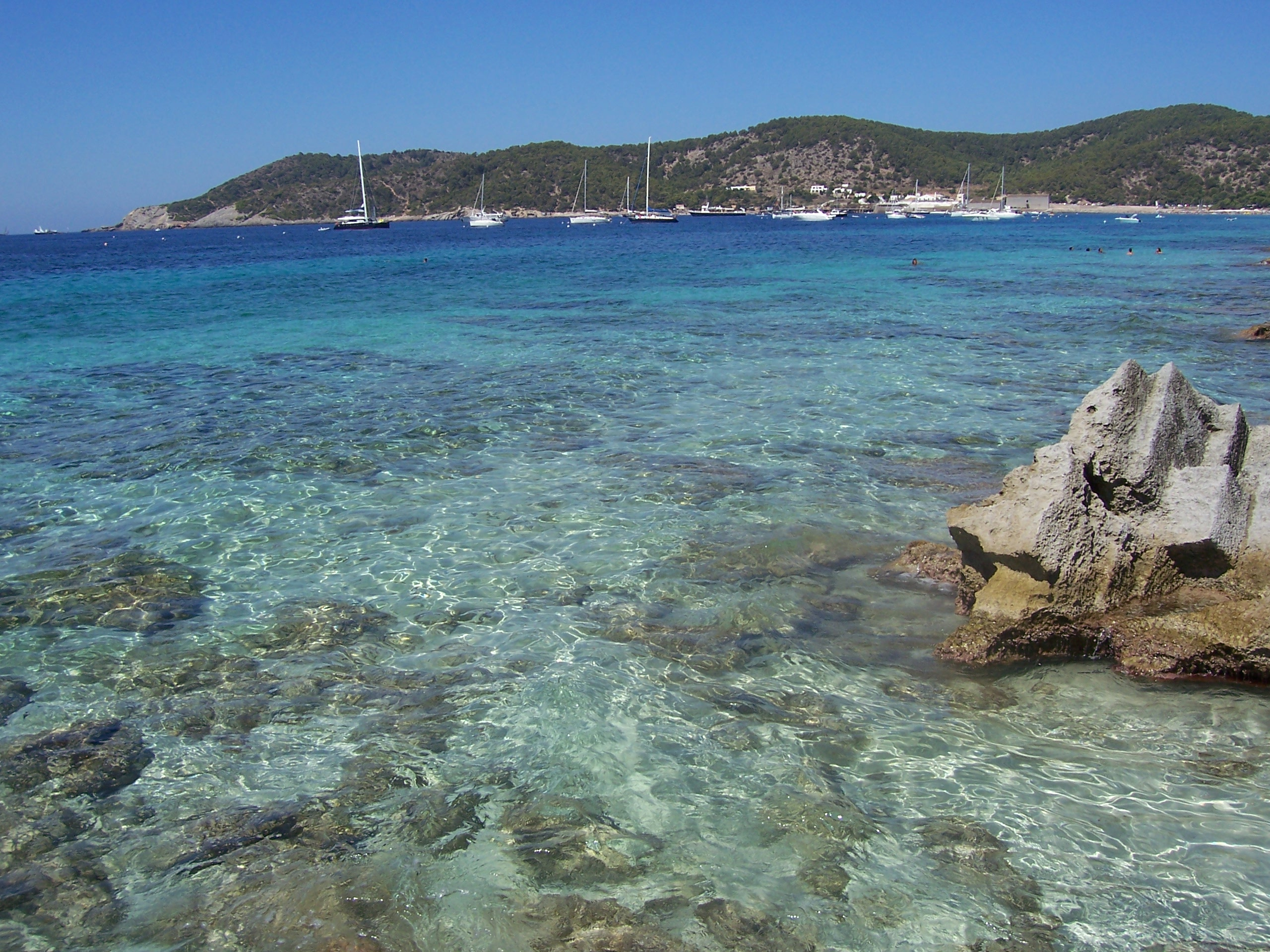 Ibiza, Playa de ses salines